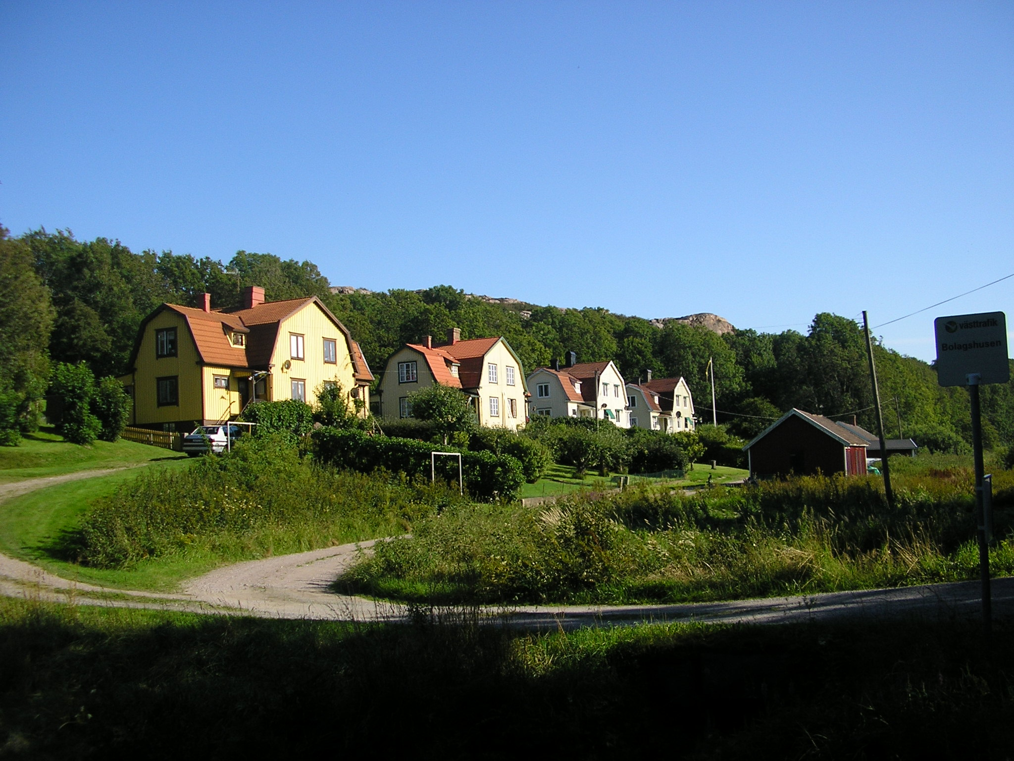 Bolagshusen, where quarry workers from the now abandoned quarries in Fågelviken and Ed on Härnäset (Lysekil Municipality, Bohuslän, Sweden) used to live. Each building housed four families.